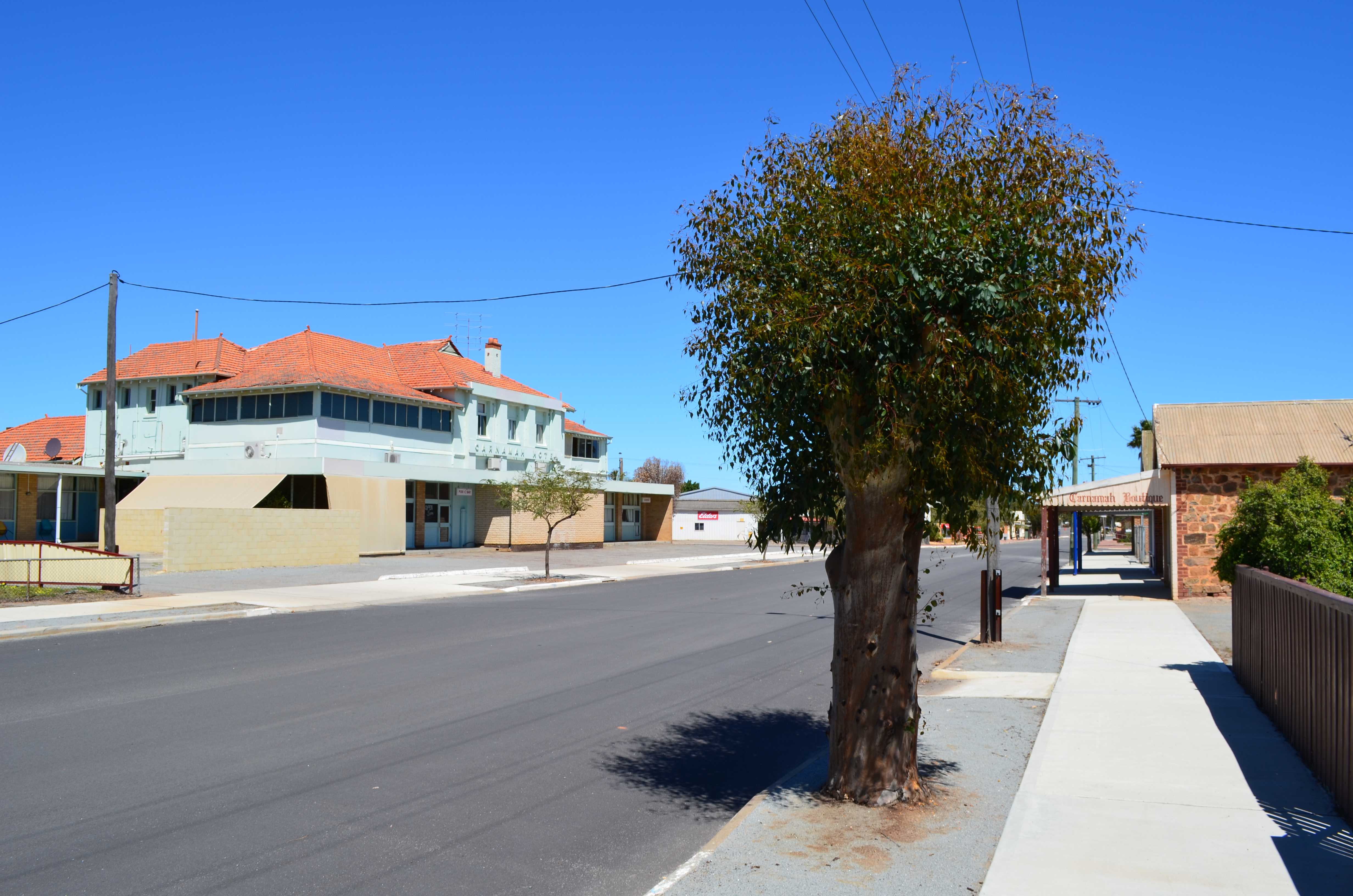 A view of Macpherson Street, Carnamah, Western Australia, looking southwest, with the Carnamah Hotel at left. A similar view of the street, taken in 1932, is on display as the "Window to the Past" at the Carnamah Museum, owned by the Carnamah Historical Society.